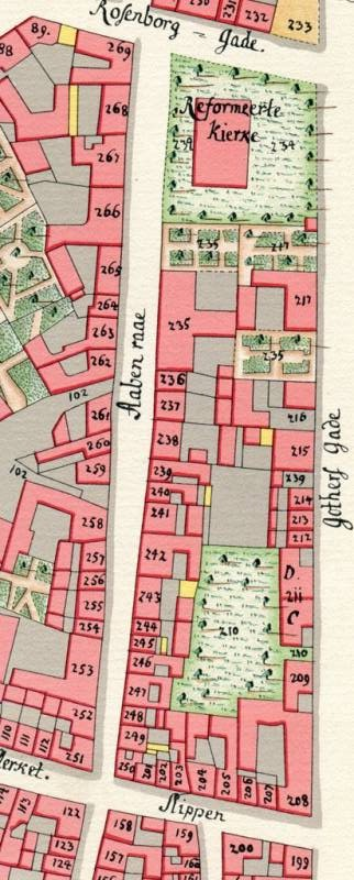 Map detail from Gedde's district map of Rosenborg Quarter in Copenhagen showing the street Åbenrå (then Aabenraa)